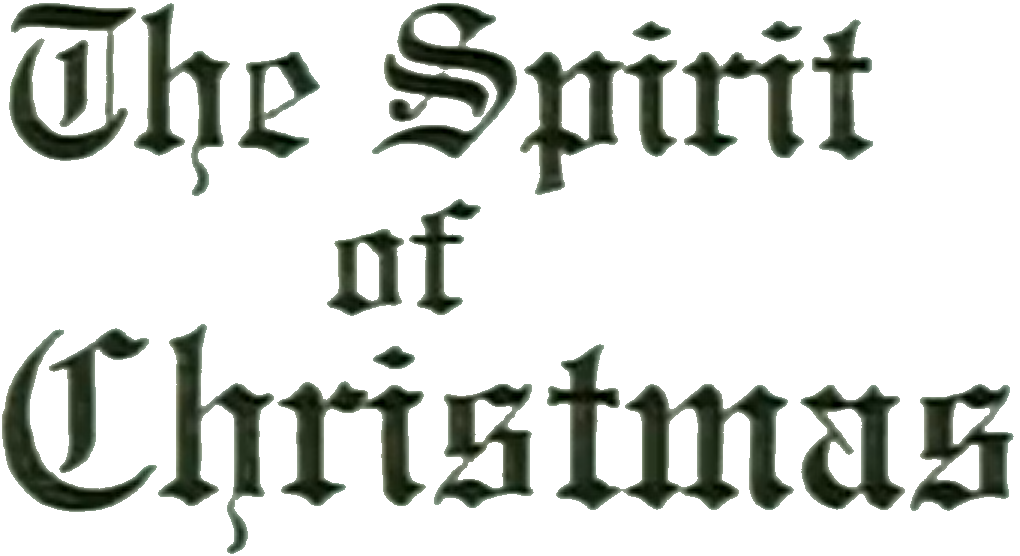 The logotype for "The Spirit of Christmas: Jesus vs. Santa"; an early South Park short.